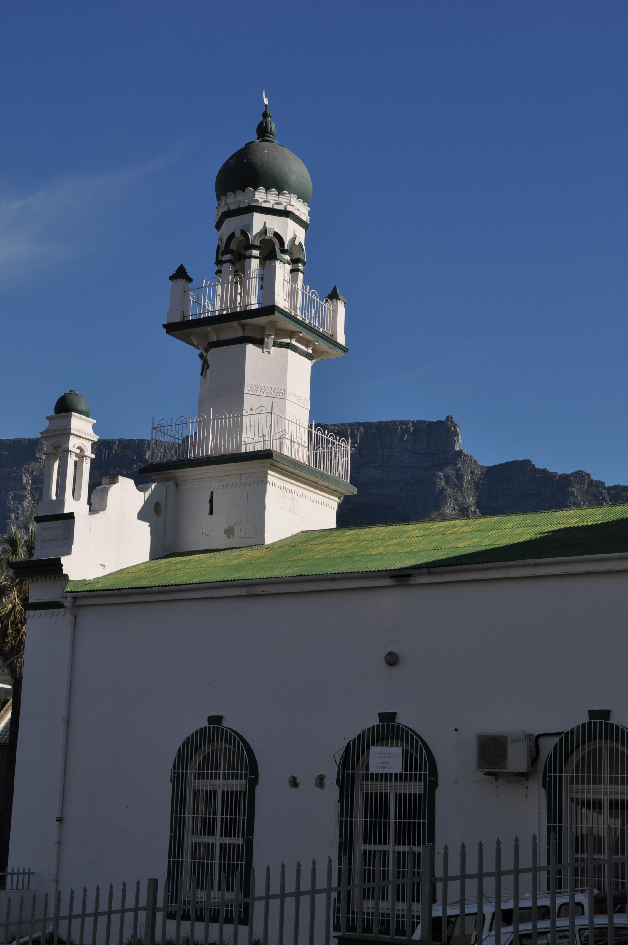 214 Loop St, Cape Town. This media shows a South African Protected Site with SAHRA file reference 9/2/018/0122.